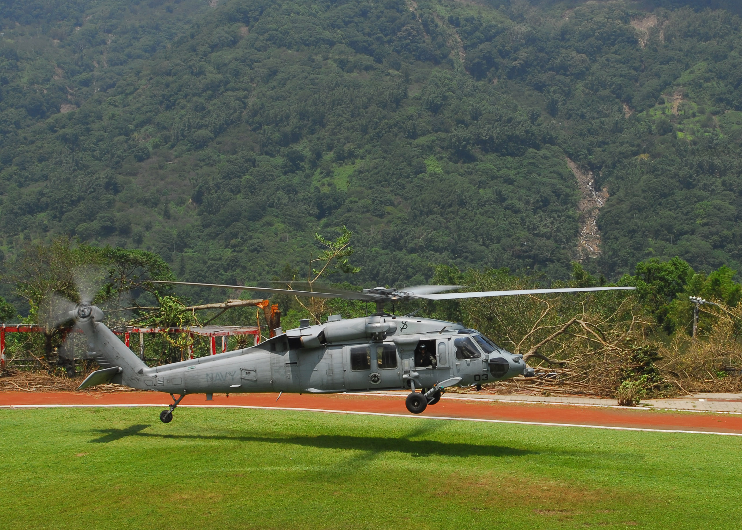 An MH-60S Knighthawk lifts off from a temporary landing zone in Min Chuan, Taiwan, leaving behind a crew of Marines to manage inbound earthmovers Aug. 19, 2009. The MH-60S and other Navy helicopters embarked aboard USS Denver (LPD 9) are currently conducting humanitarian operations in Taiwan to provide assistance to those suffering in the wake of typhoon Morakot.